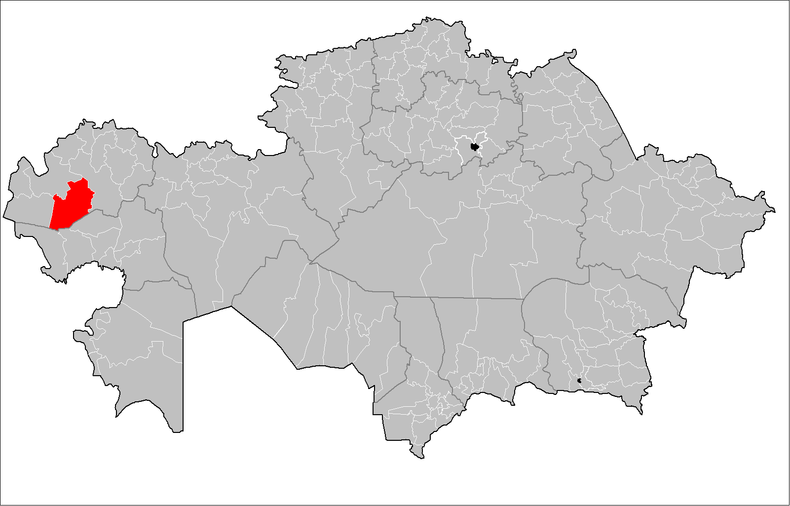 Map of Dzhangala District in Kazakhstan. for public domain use, using MapInfo Professional v8.5 and various mapping resources.